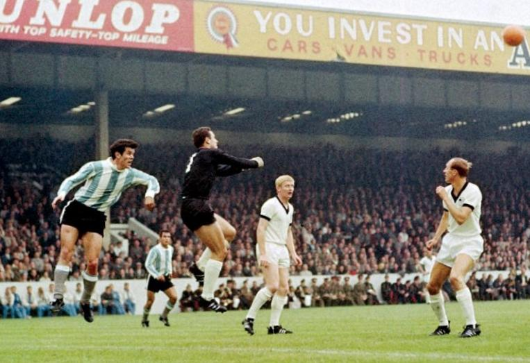 Argentina (0) v. Germany (0) at the Villa Park, Birmingham. Players are Solari, Más, Tilkowski, Schnellinger, Schulz.